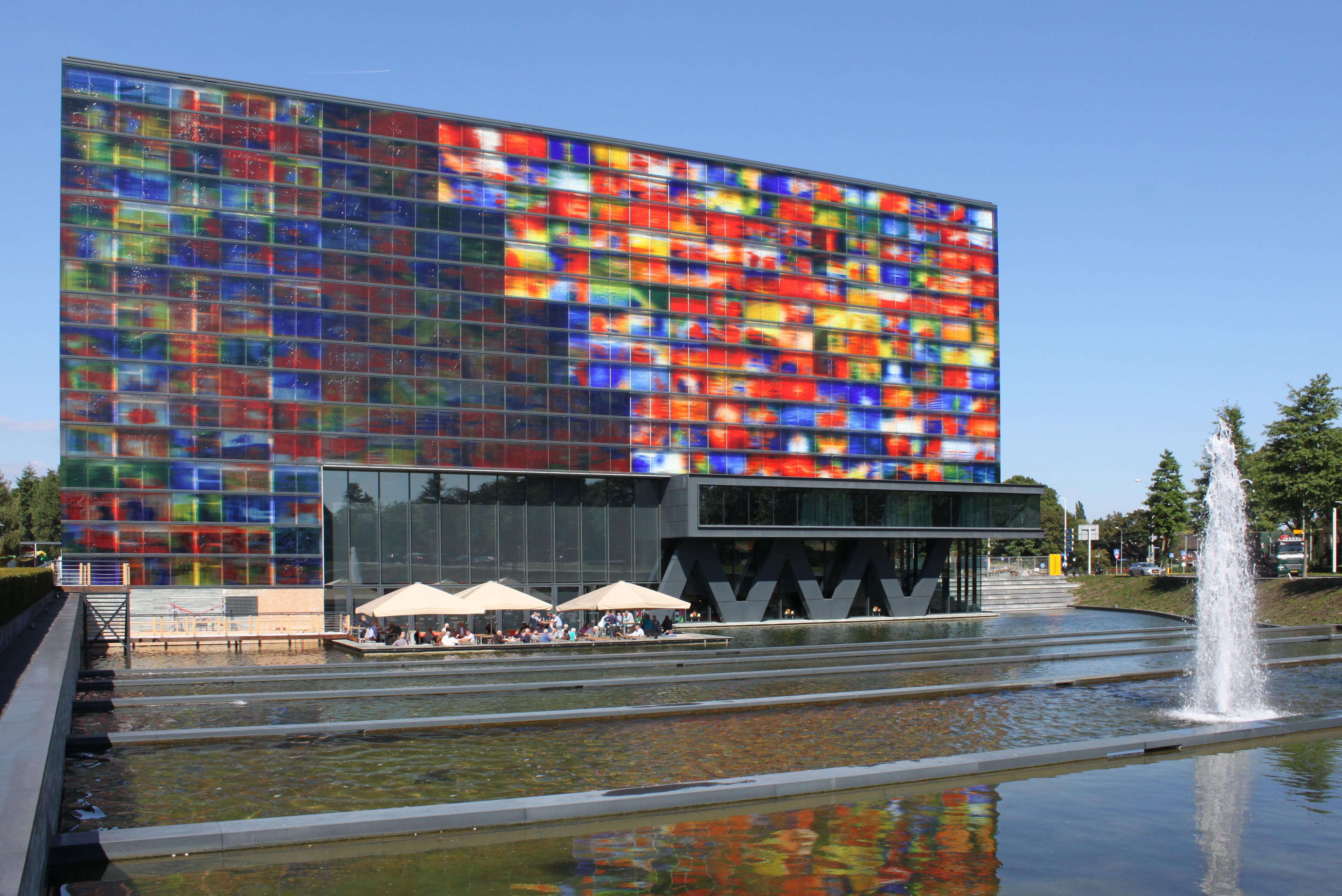 View on the terrace of the Netherlands Institute for Sound and Vision (Nederlands Instituut voor Beeld en Geluid) in Hilversum, the Netherlands.